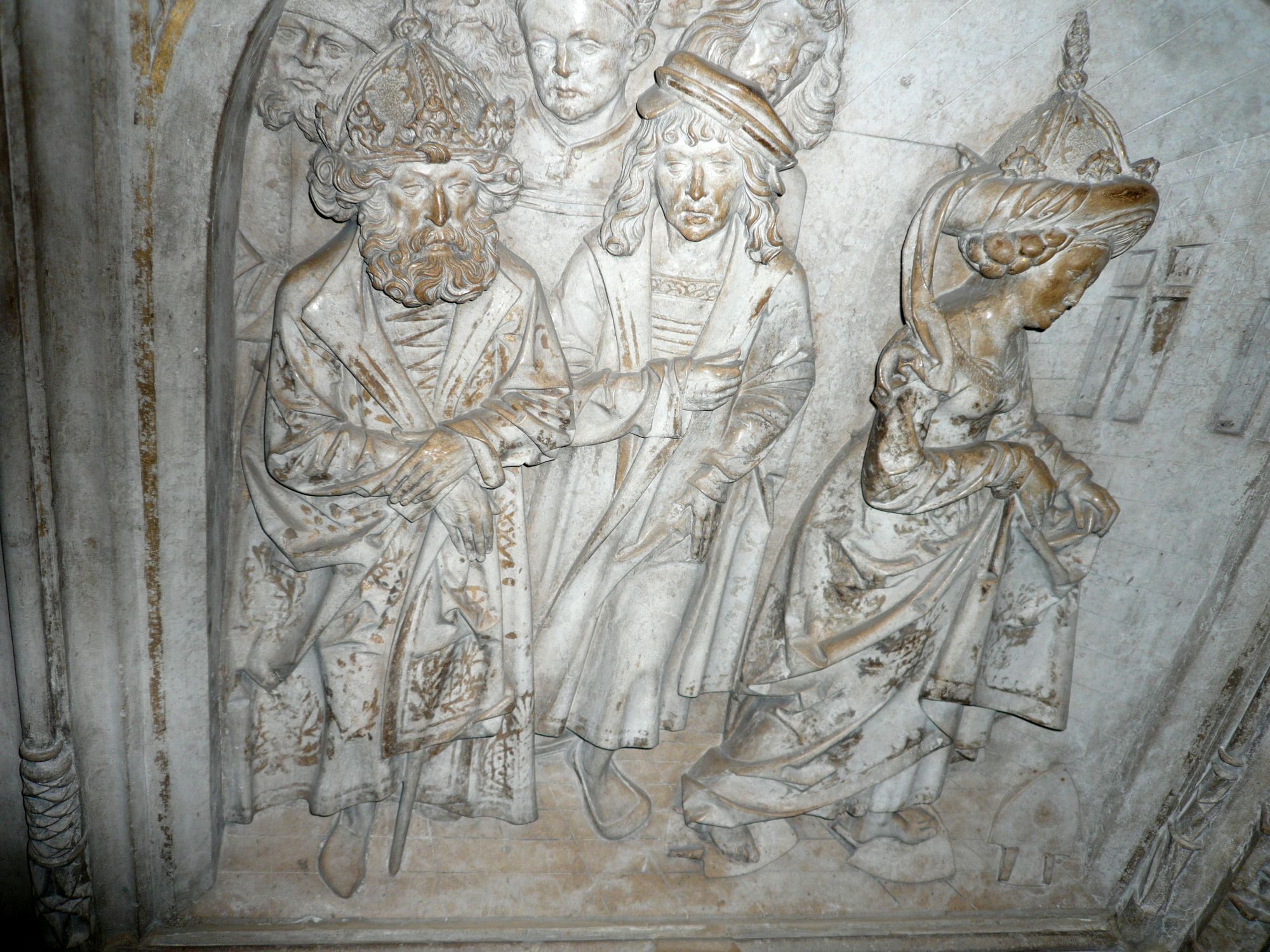 Holy Kunigunde (to the right), represented on her tomb in the cathedral of Bamberg